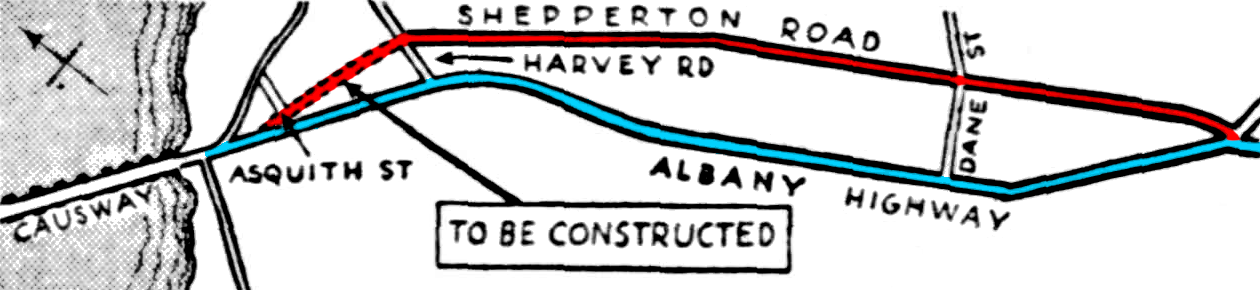 Shepperton Road (shown in red) is a bypass for Albany Highway (shown in blue) in Victoria Park, Western Australia. Original image caption read "The route of the by-pass road sanctioned by the Perth City Council yesterday, which will provide a continuous alternative road north of Albany-highway."